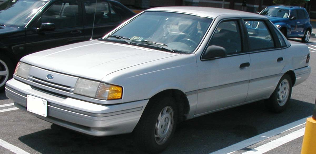 1988-1994 Ford Tempo photographed in USA.